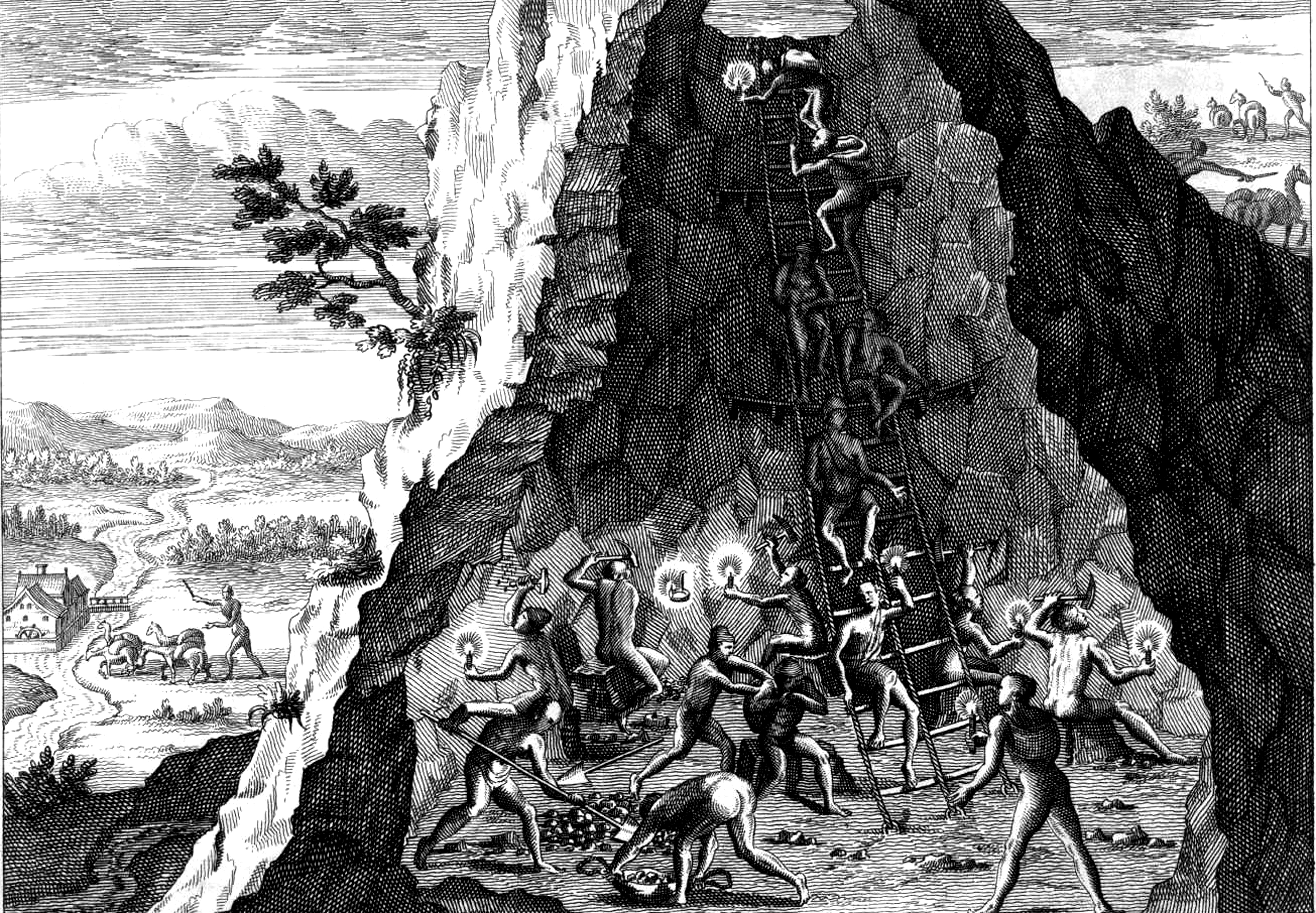 Mining in Potosí, an engraving from Theodoor de Bry in Historia Americae sive Novi Orbis, 1596